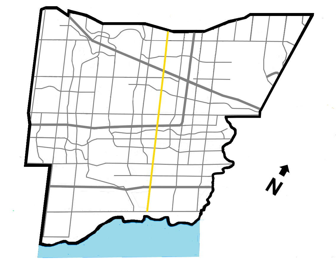 Hurontario St. within Mississauga